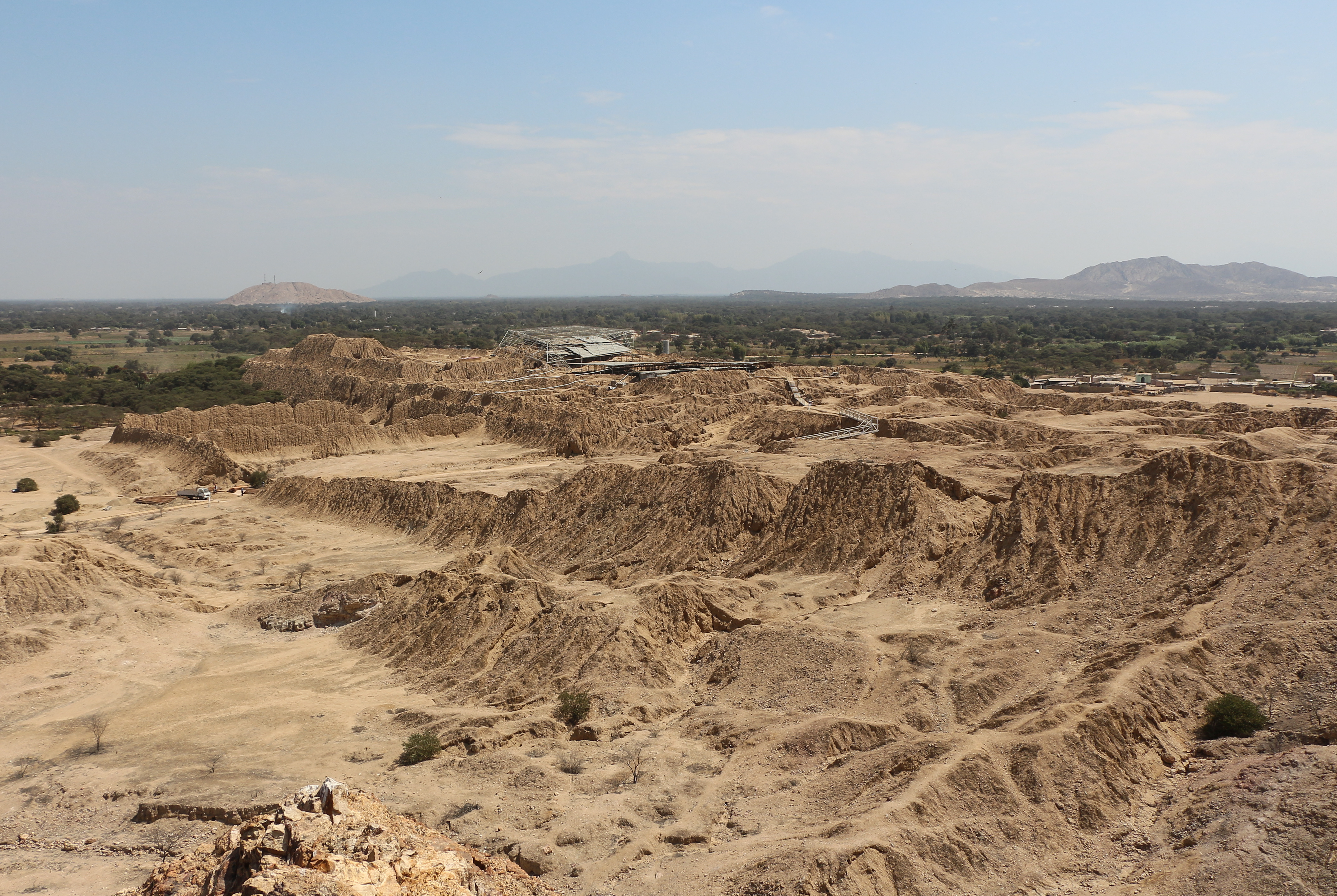 Site of Túcume, Peru